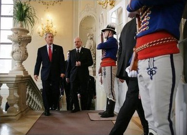 President George W. Bush and Slovak President Ivan Gasparovic in Presidential Palace in Bratislava, Slovakia